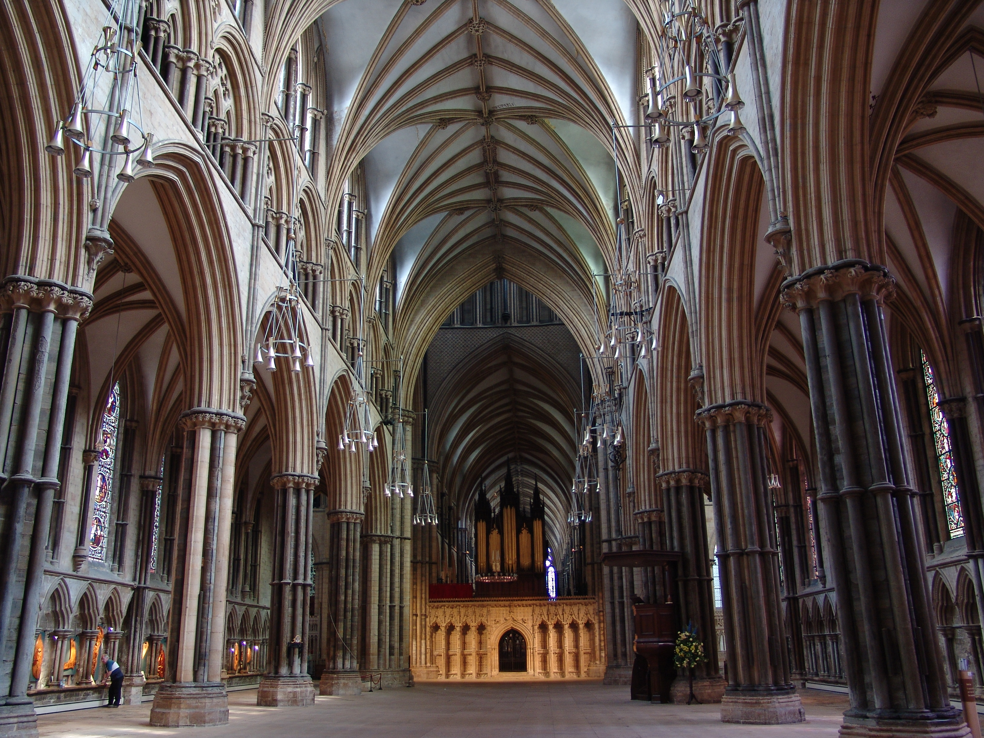 Lincoln Cathedral